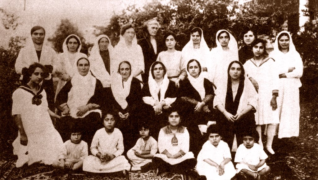 Standing left to right: unknown, unknown, unknown, Julia Culver, Emogene Hoagg, Maryam Shahid, unknown, unknown, Zaynat (wife of Dr. Zia Baghdadi), Mehranguise Rabbani, unknown. Seated: Suraya Afnan, Munirih Khanum (wife of 'Abdu'l-Baha), Bahiyyih Khanum (the Greatest Holy Leaf), and (the daughters of 'Abdu'l-Baha) Diya'iyyih Khanum, Tuba Khanum, and Ruha Khanum. Children seated on the carpet: Hassan Jalal Shahid, Zahra Shahid, Riaz Rabbani, unknown, Parvin (daughter of Dr. Baghdadi), and Fuad Afnan. This photo was taken circa 1920 at the house of Mirza Jalal Shahid, 9 Persian Street, Haifa